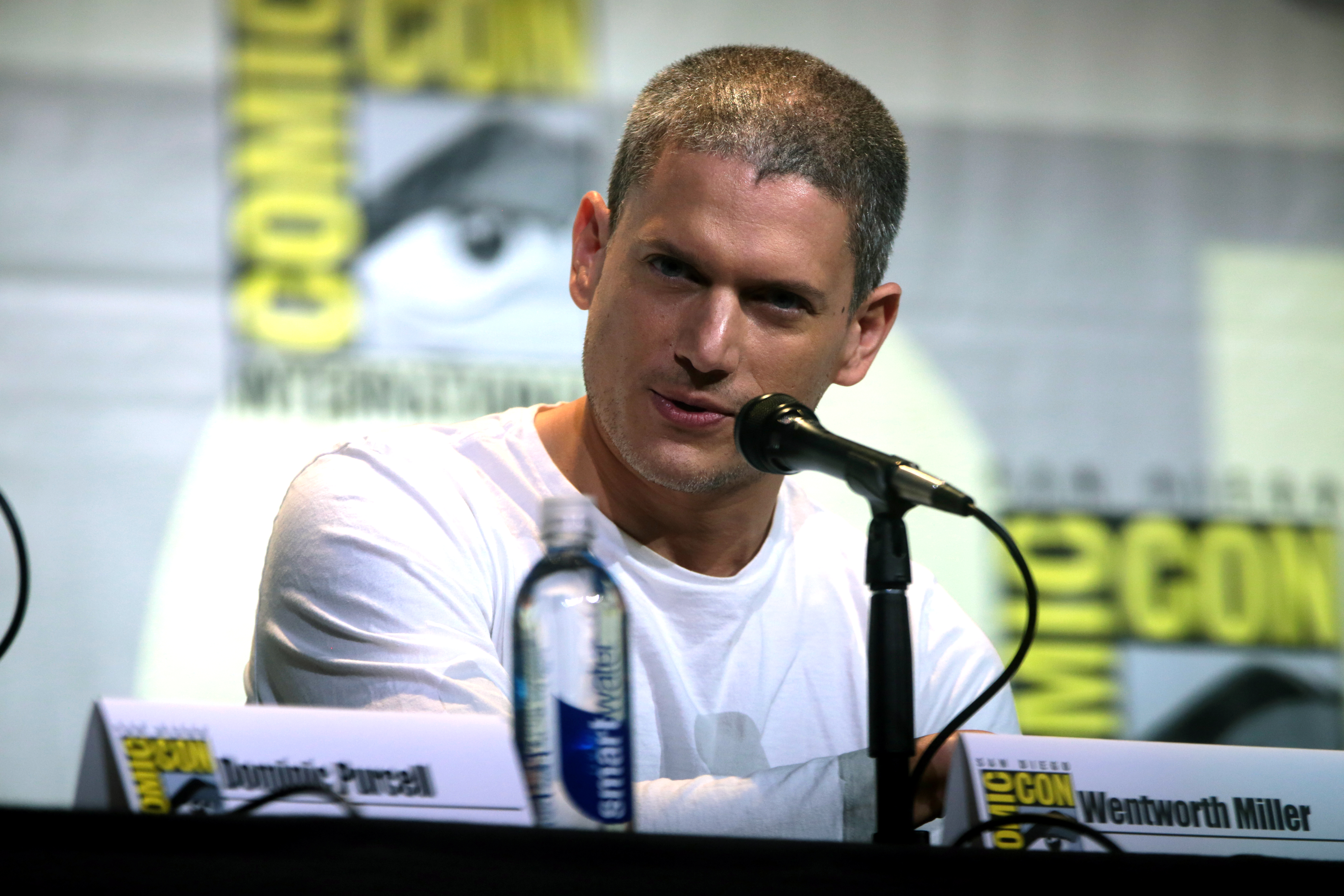 Wentworth Miller speaking at the 2016 San Diego Comic Con International, for "Prison Break", at the San Diego Convention Center in San Diego, California.